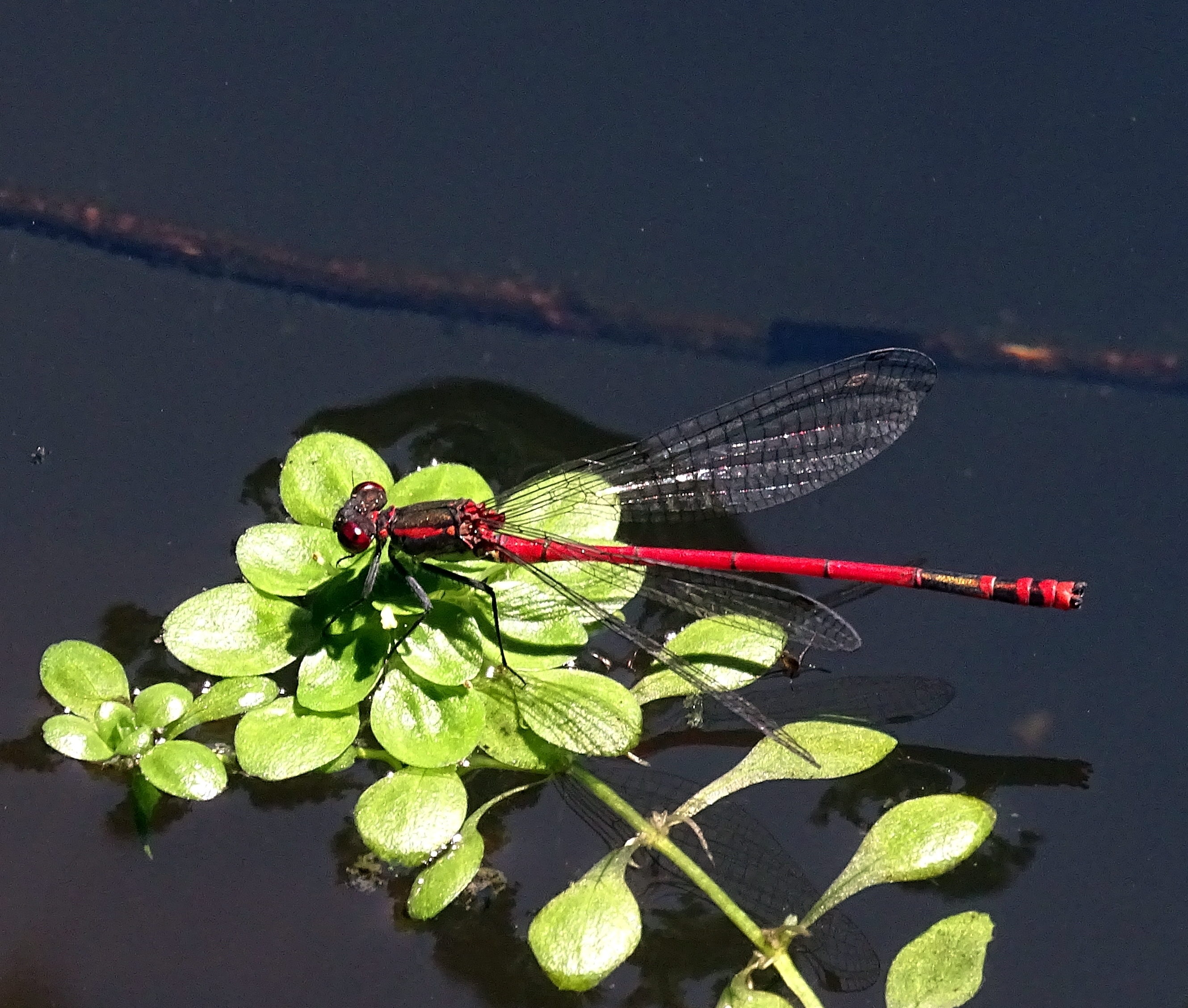 Pyrrhosoma nymphula (Sulzer, 1776) - mužjak na flotantnoj vegetaciji.